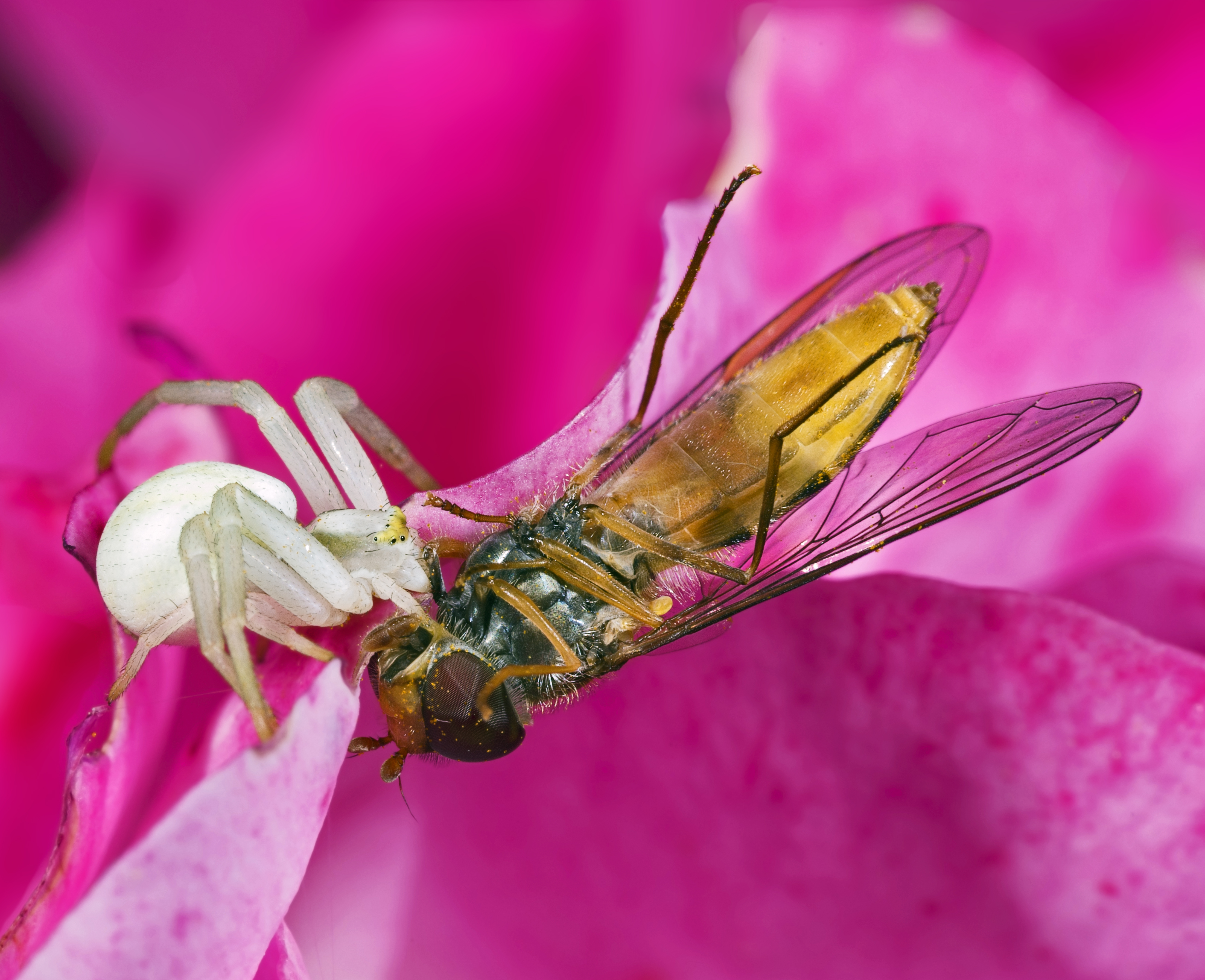 Misumena vatia White form (female) eating Episyrphus balteatus Locality : Fronton, Haute-Garonne France.